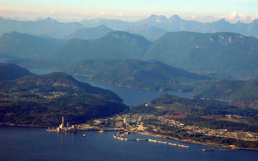 Mill and "townsite" of Powell River from the air by James Blake.